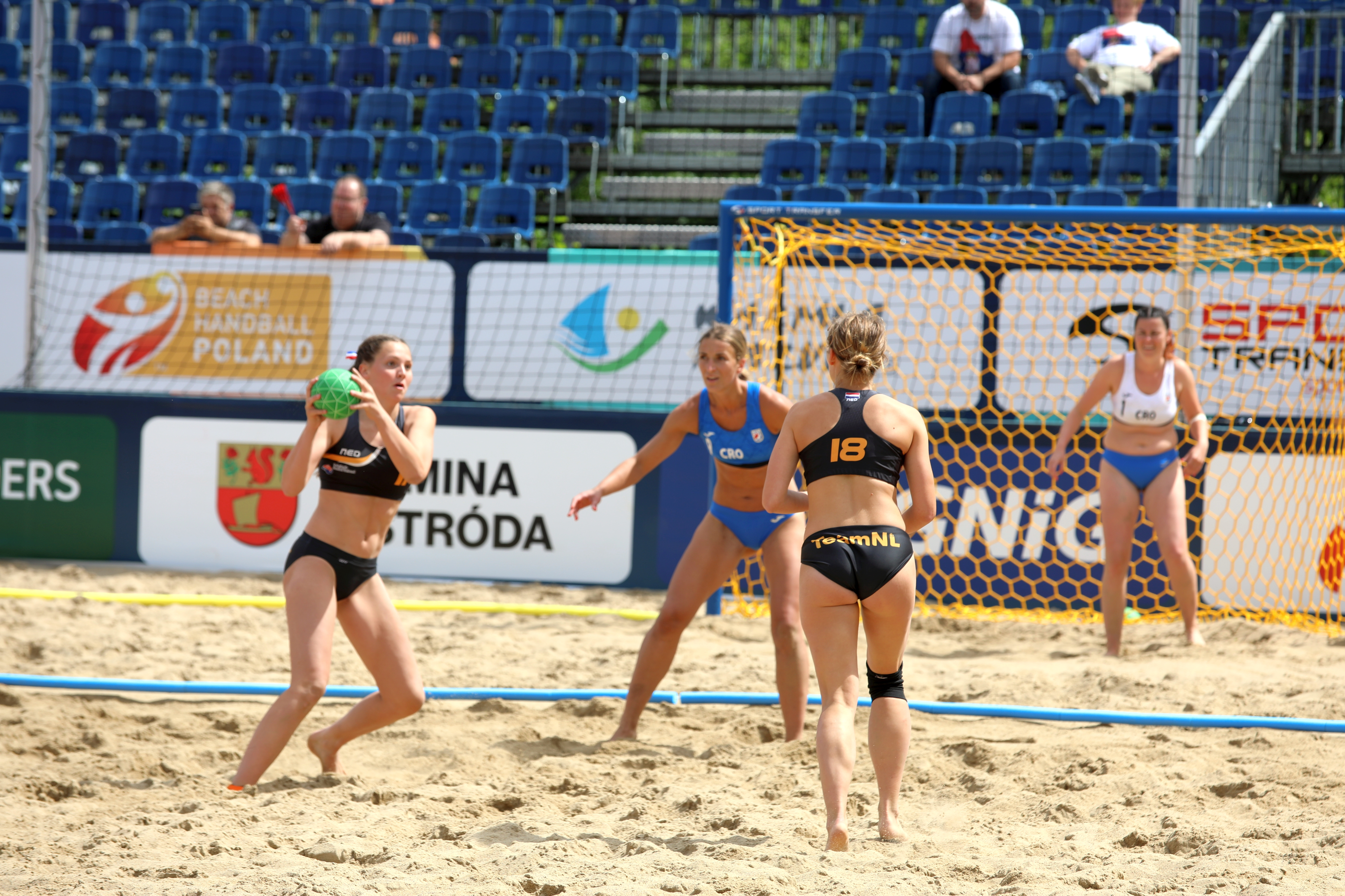 Beach handball Euro; Day 6: 7 July 2019 – Women's Bronze Medal Match – Croatia-Netherlands 0:2 (14:23, 20:22)